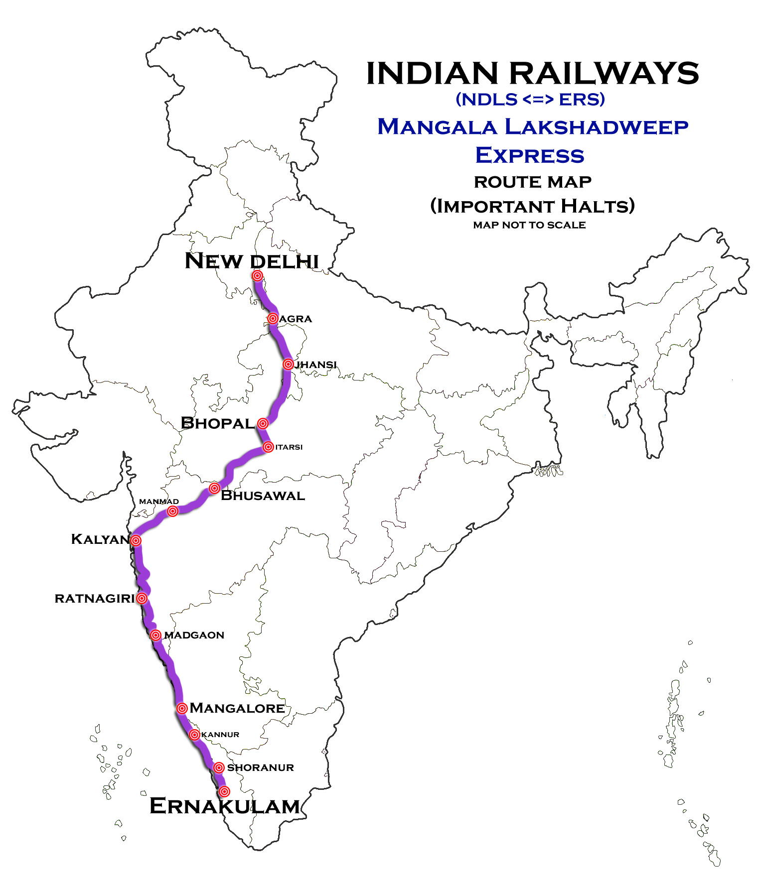 Mangala Lakshadweep Express (NDLS - ERS) Route map